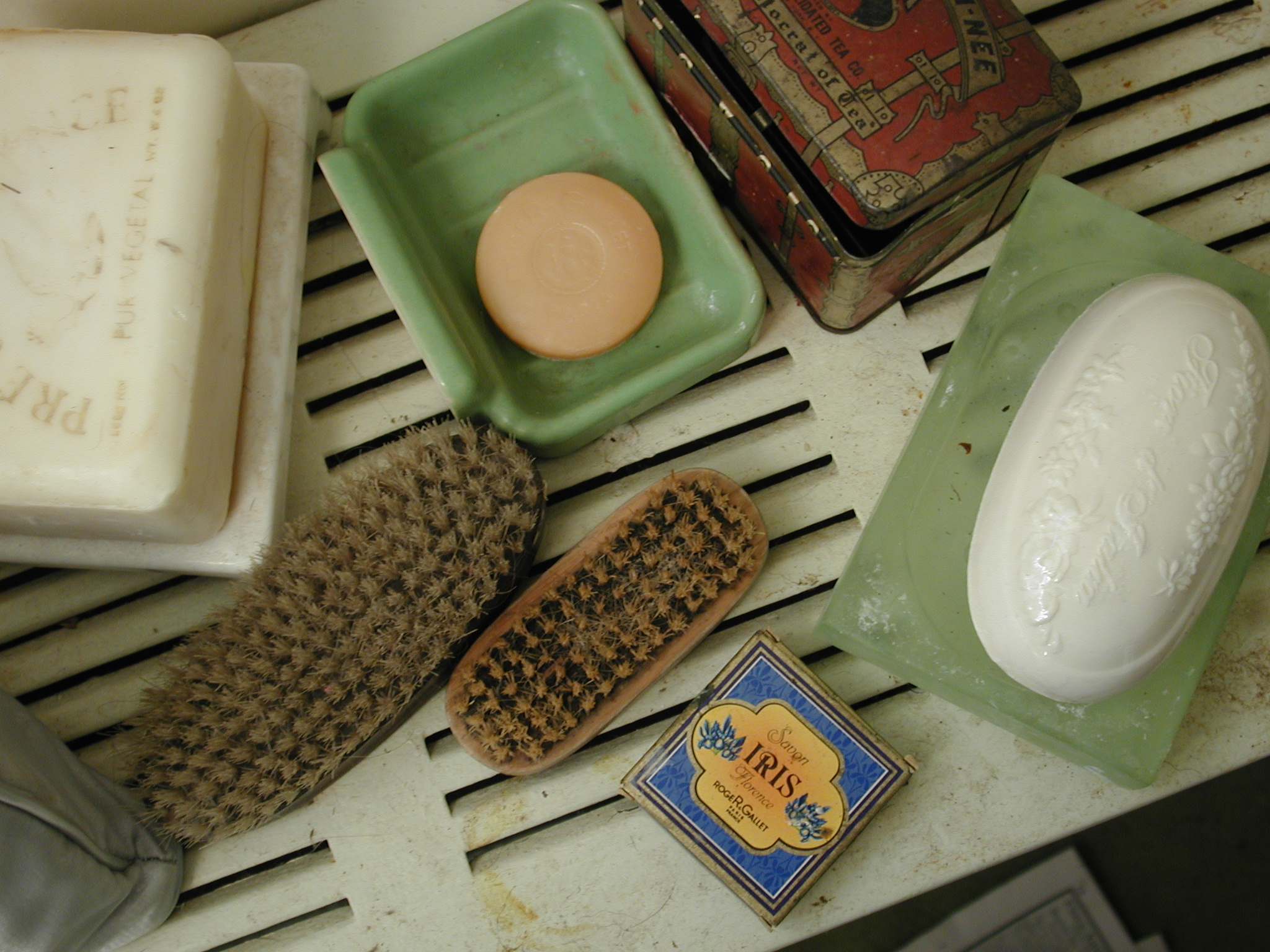 while visiting my friends kathy and ian on their farm in wisconsin it snapped this.soap and brushes